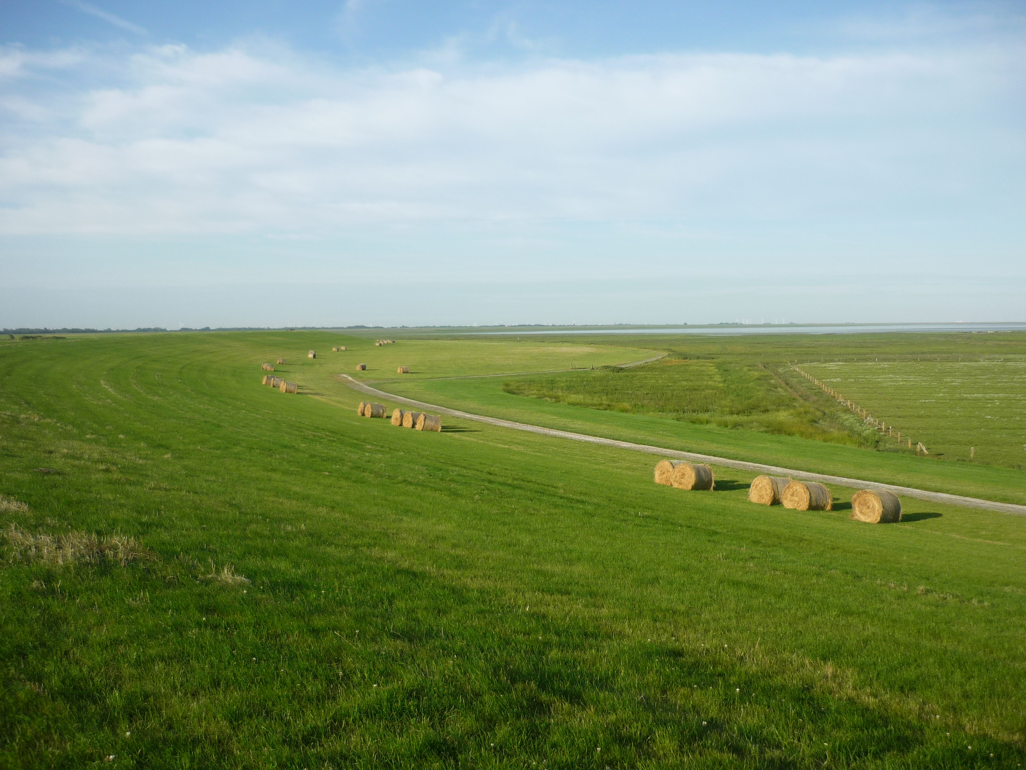 Leybucht